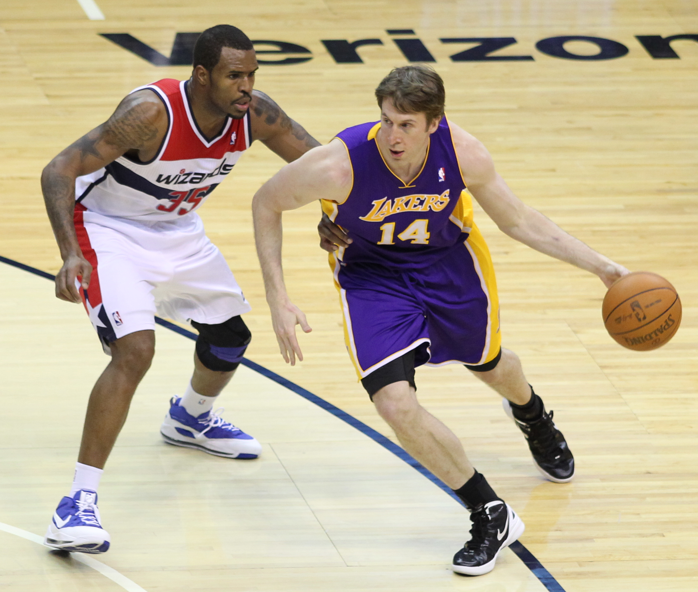 Lakers at Wizards March 7, 2012